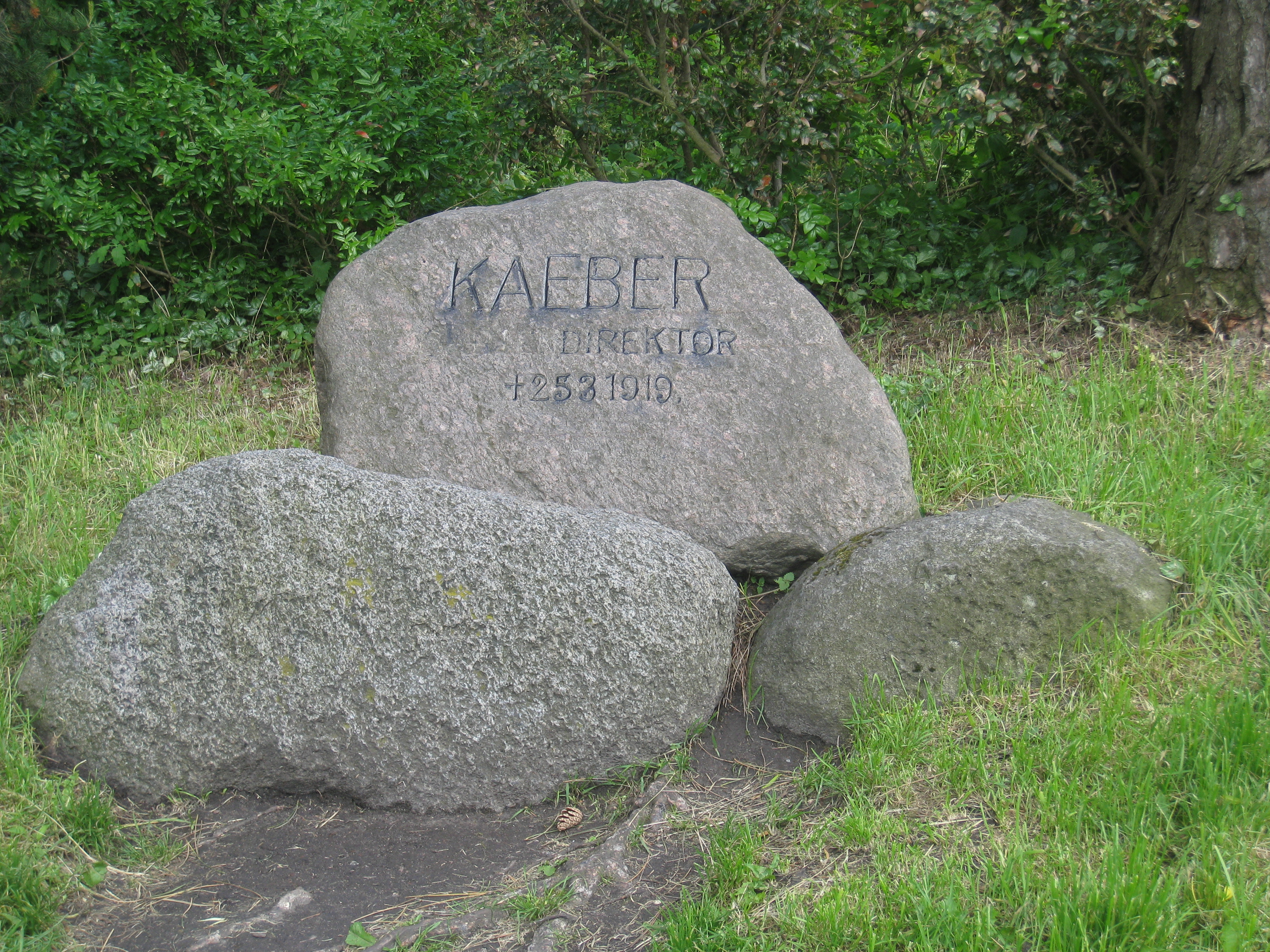 memorial stone